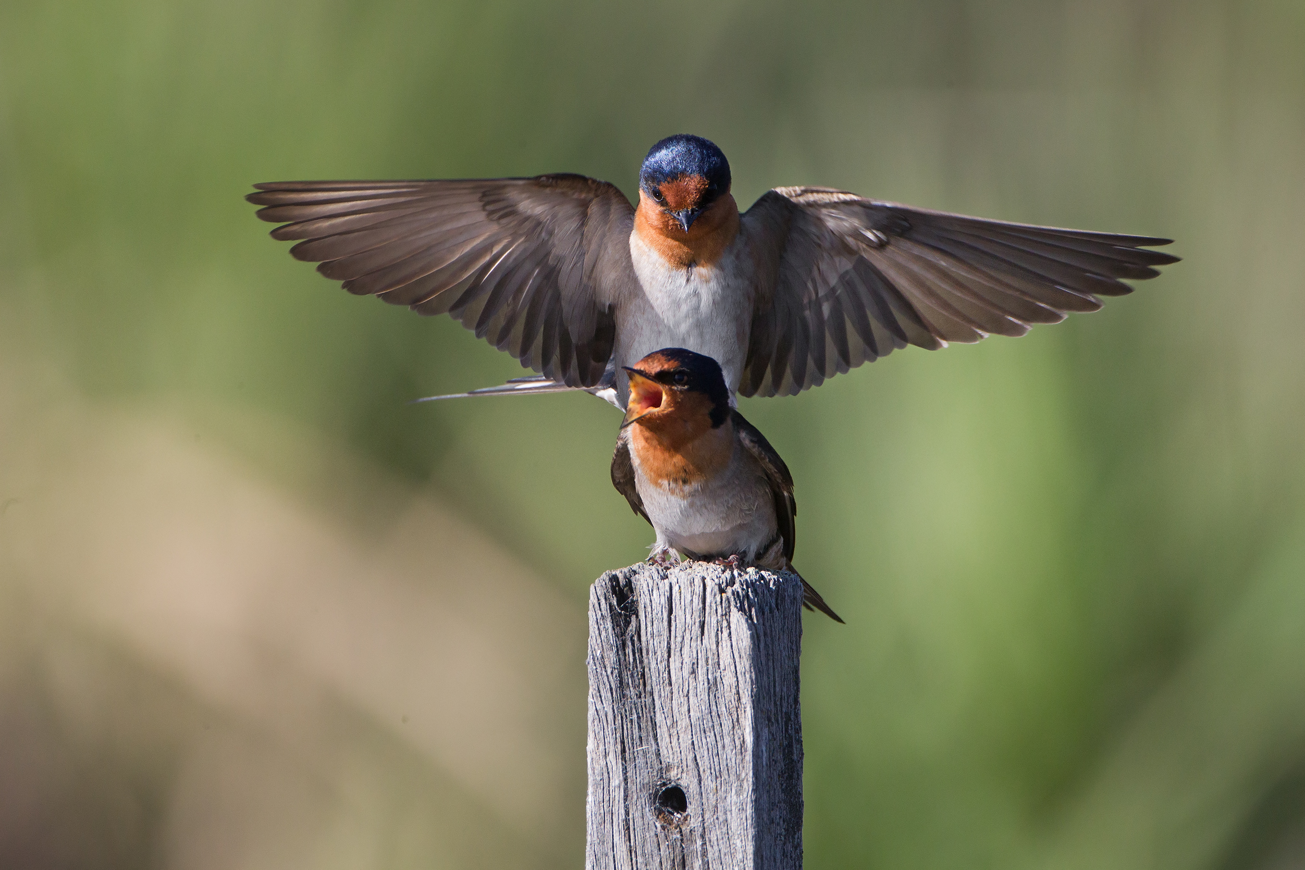 Welcome Swallow (Hirundo neoxena), Gould's Lagoon, Tasmania, Australia